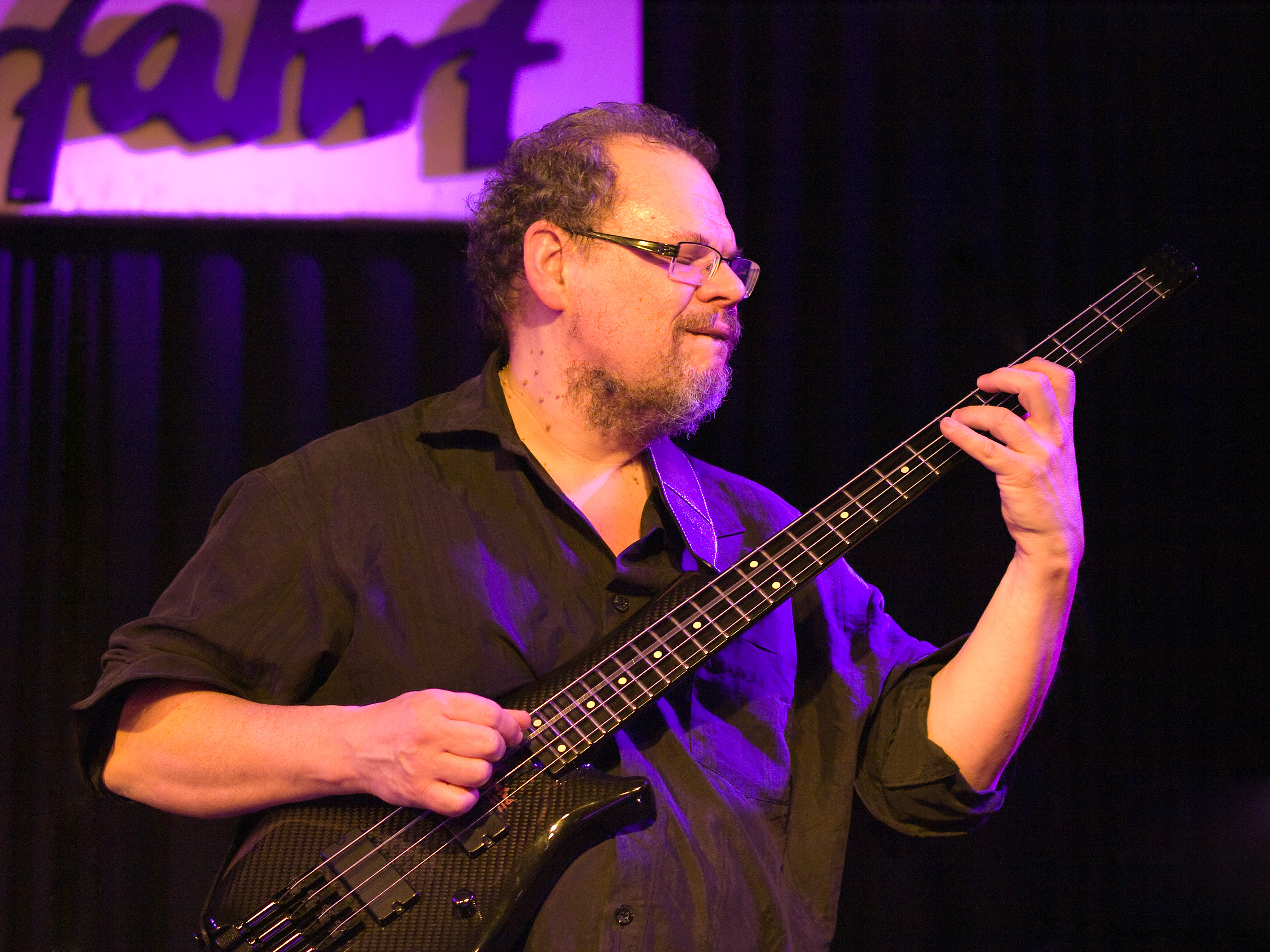 Michel Godard, Jazz tubist, here playing electrical bass, Picture taken in Jazz Club Unterfahrt, Munich/Bavaria